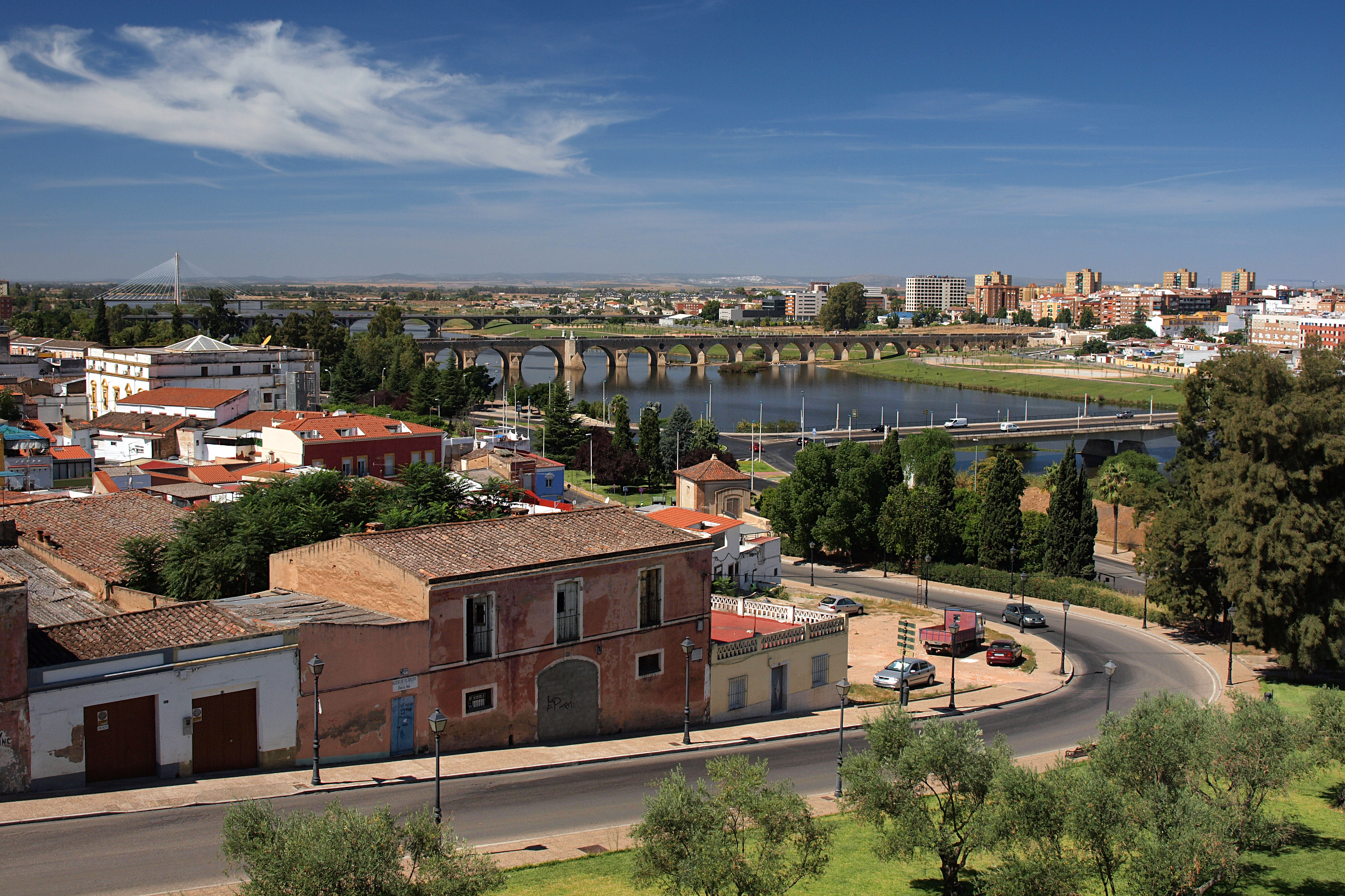 Guadiana River viewed from the Alcazaba